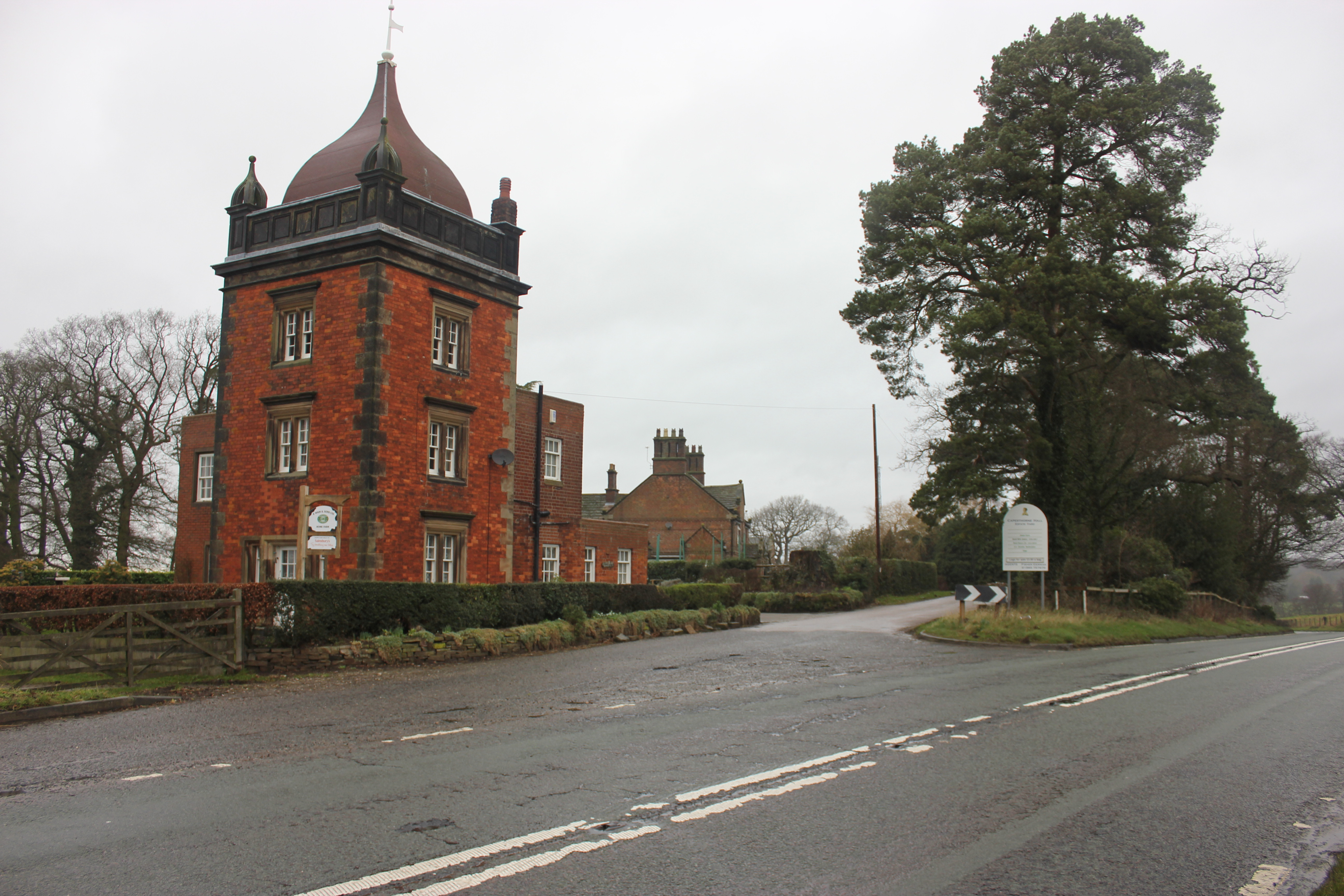 Photograph of the North Lodge of Capesthorne Hall, Cheshire